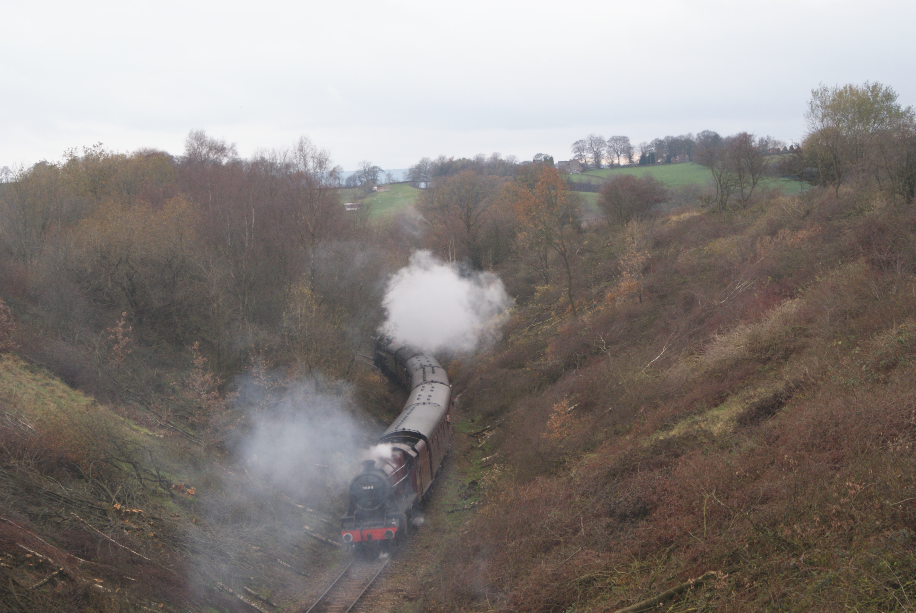 Train on the Moorland and City Railway, England, on first weekend of public operation